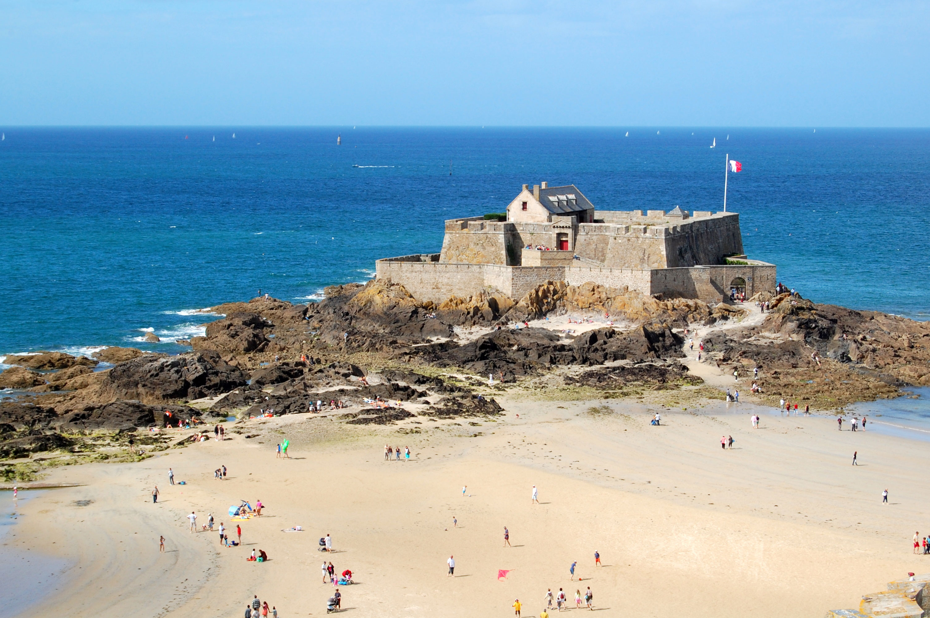 Low tide view of Fort National , Saint-Malo (Brittany, France) as seen from the castle of Saint-Malo